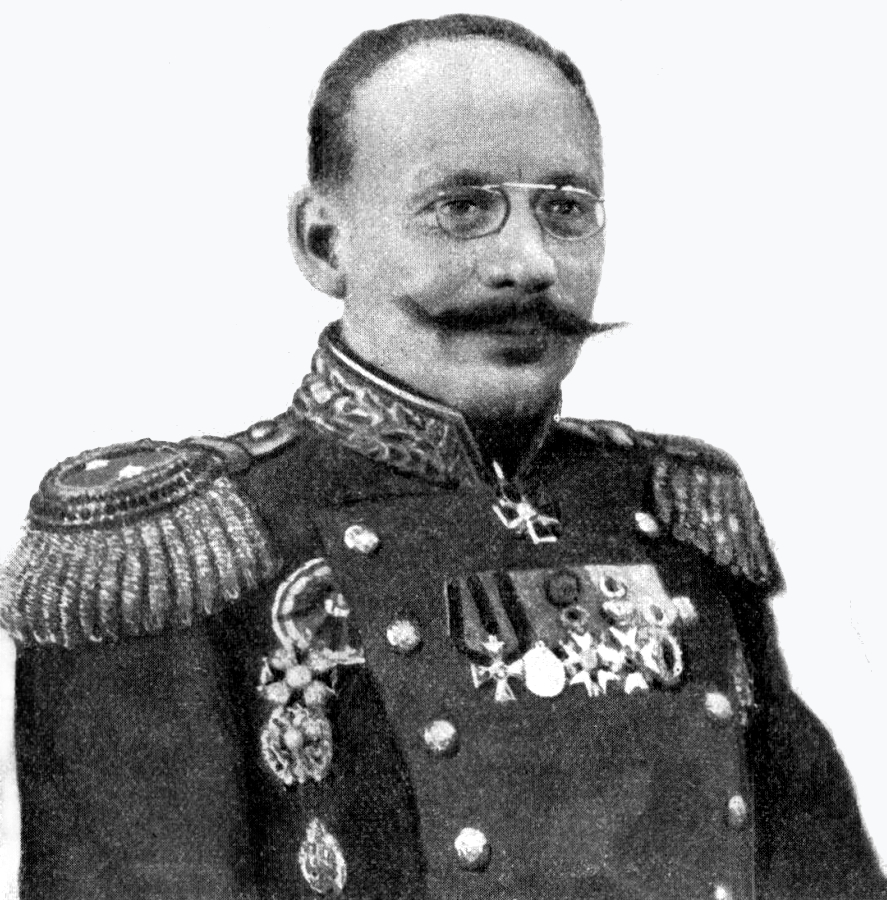 Shokalsky, Yuly Mikhaylovich.